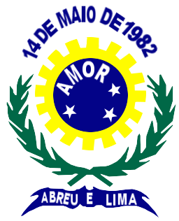 Abreu e Lima Coat